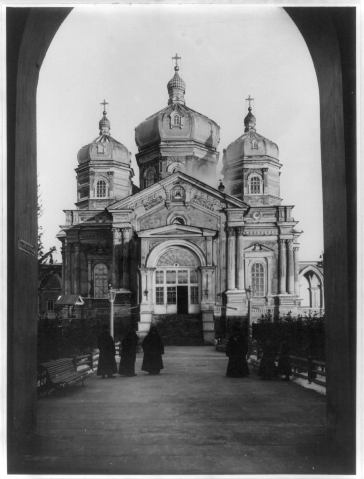 Title: Vosnesenskaya, near Irkutsk - monastery Physical description: 1 photographic print : gelatin silver ; 8 x 10 in. or smaller. Notes: Forms part of: Jackson, William Henry, 1843-1942. World's Transportation Commission photograph collection (Library of Congress).; Published as halftone in Harper's Weekly, 1897, p. 853.; Gift; Colorado Historical Society; 1949.; Photographic print made by LC from Jackson's vintage film negative.